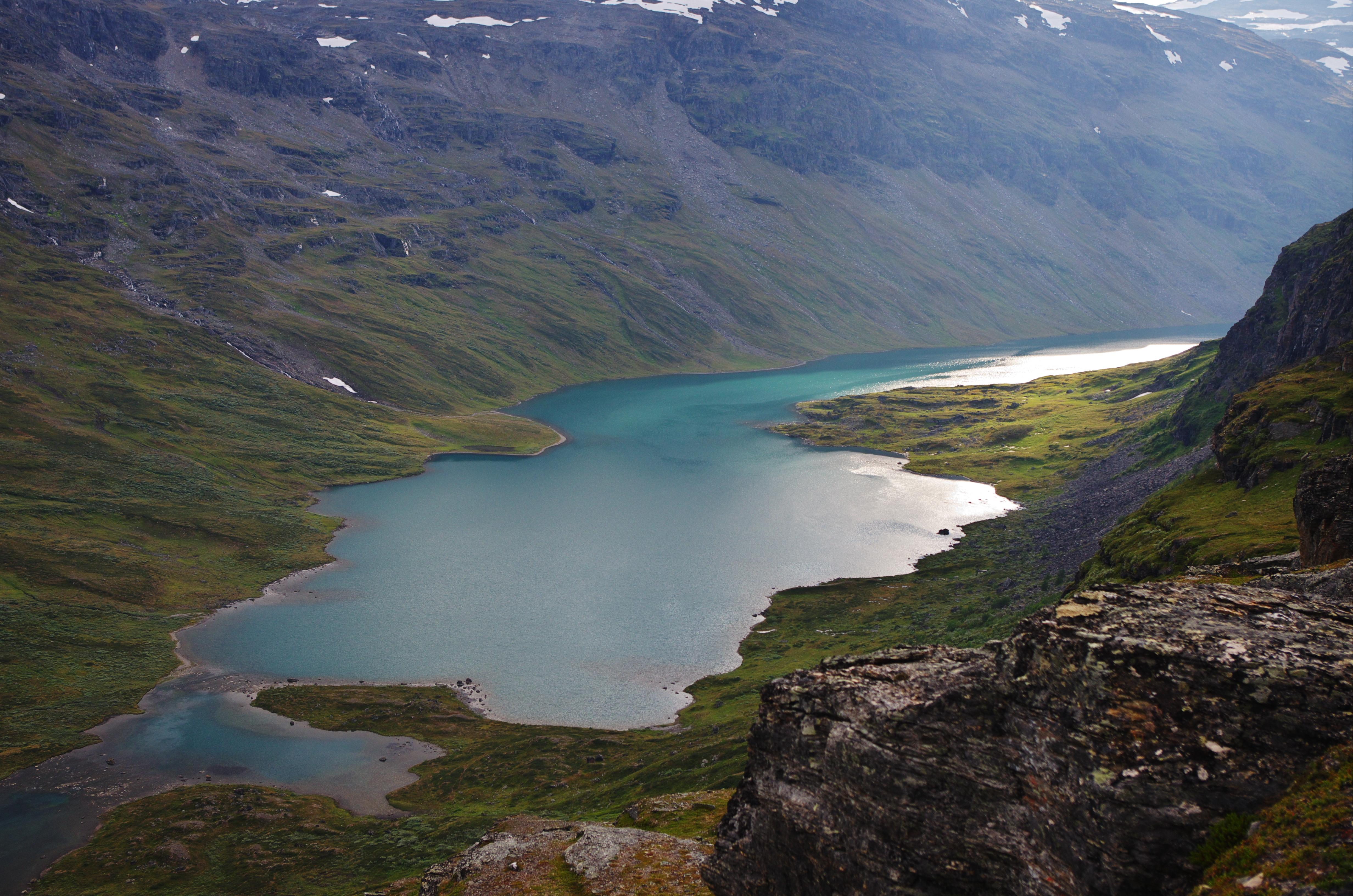 Pajemus Kårsavaggejaure (Bajimus Gorsajávri): Lake in Lappland, Sweden.